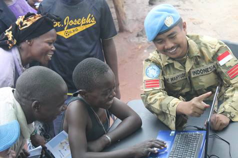 Un soldat de la paix indonésien montre à la population de Dungu combien il est amusant d’apprendre par une Voiture Intelligente. Cette activité fait partie des actions civilo-militaires qui sont organisées une fois par semaine. Elles visent à établir des bonnes relations avec la population locale et à gagner sa confiance. Photo MONUSCO/Lt. Ihsan Hanafi = An Indonesian peacekeeper shows Dungu local population that Learning is Fun by Indonesian Smart Car. This activity is a part of Civil Military Cooperation activity which is conducted once a week. In addition, this activity’s aim is to create a good relationship and win the local population’s heart. Photo MONUSCO/Lt. Ihsan Hanafi